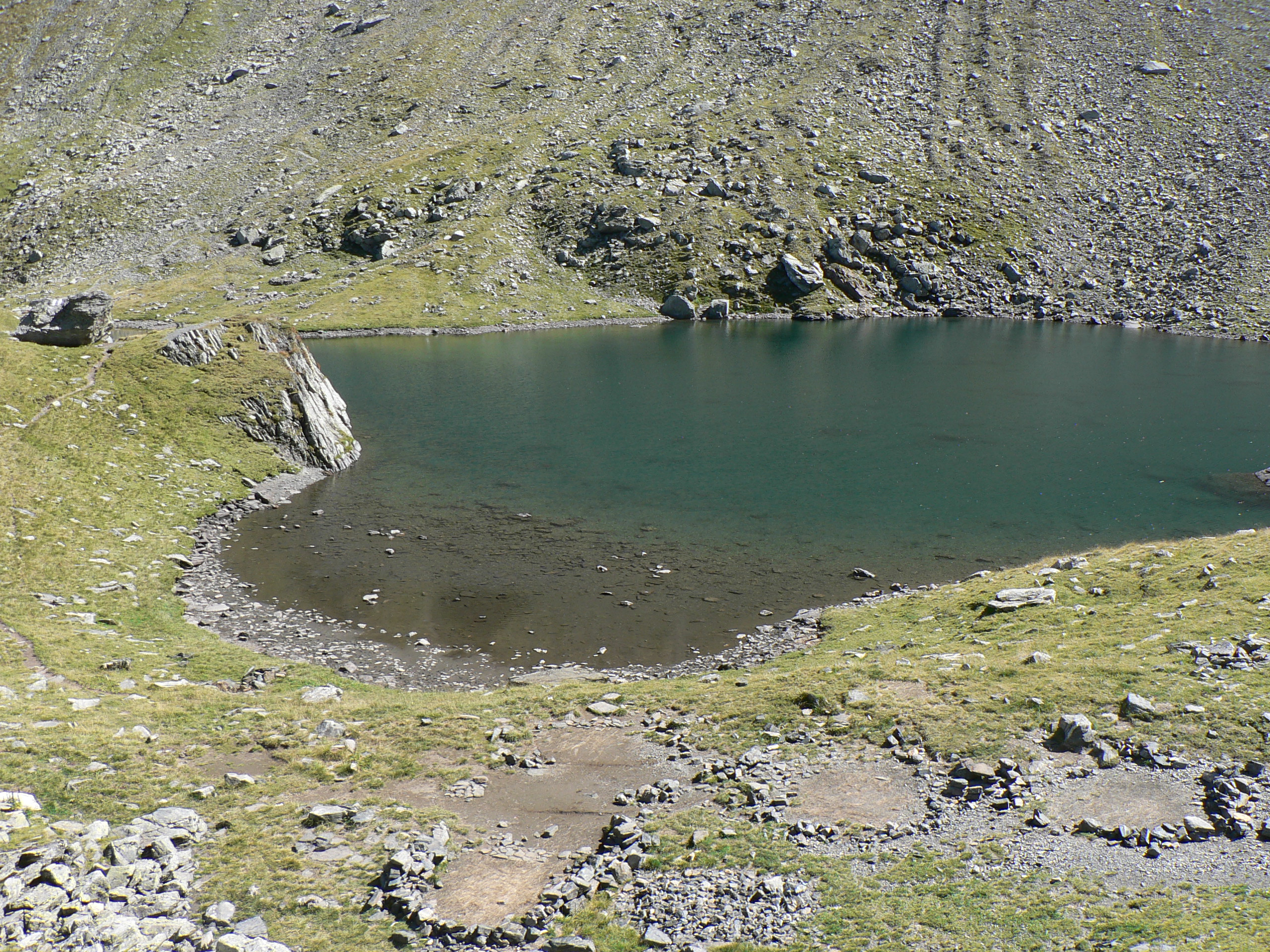 Fagaras Mountains, September 2009